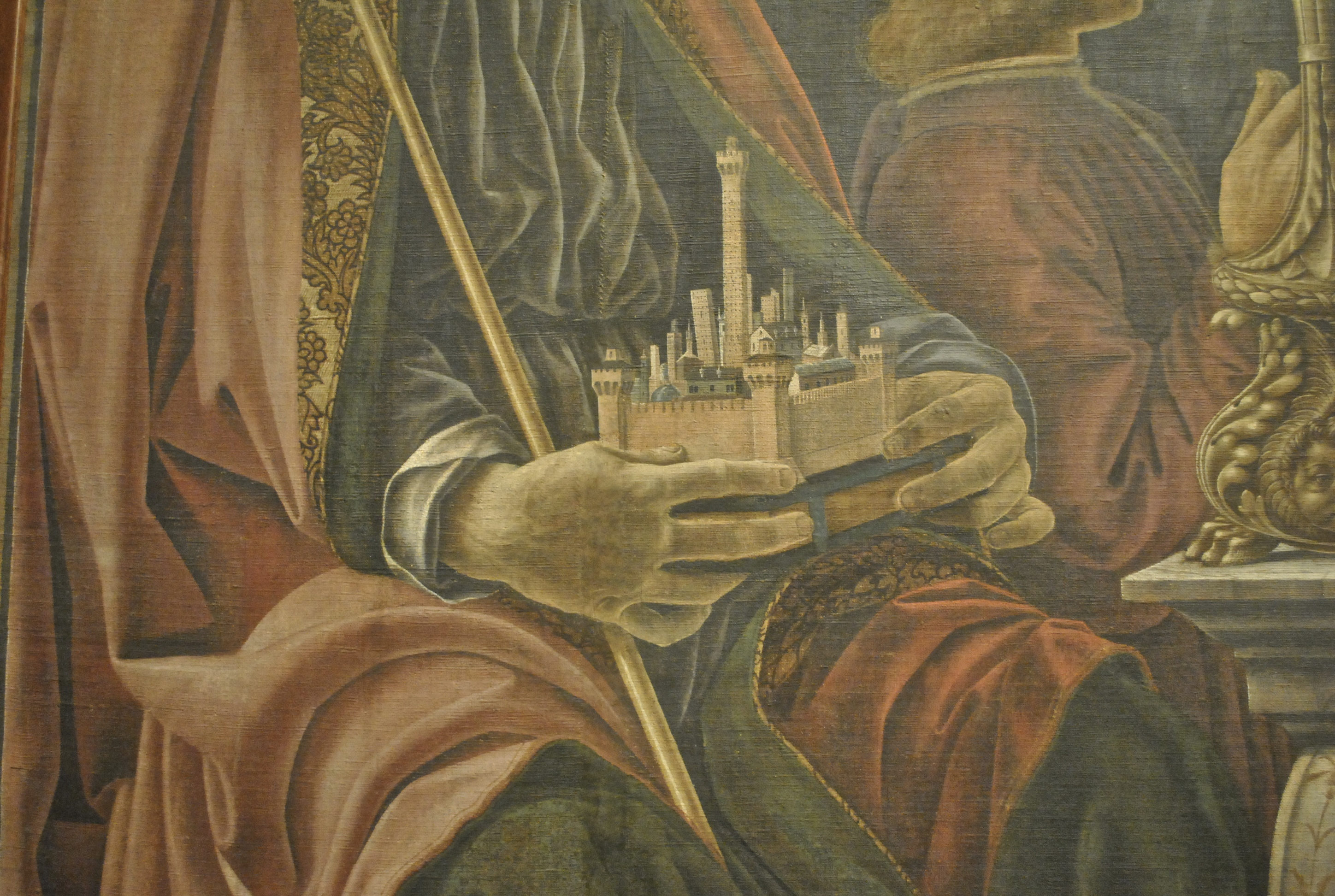 Francesco del Cossa, Saint Petronius, detail, Pala dei Mercanti (1474), Pinacoteca nazionale di Bologna